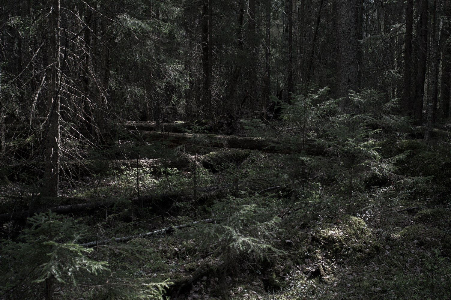 Primaeval forest is dark. Fallen trees mould on the forest floor.